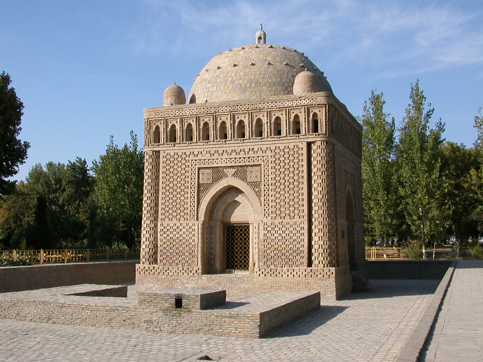 Samanid Mausoleum, Uzbekistan